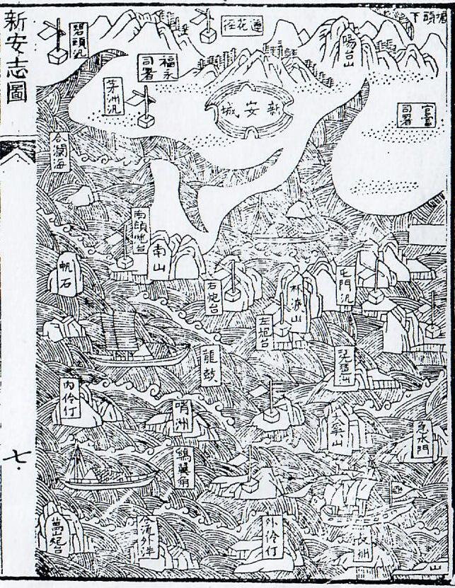 Historical Map showing a part of the San On Country of Qing Dynasty(now western part of Hong Kong and southwest part of ShenZhen